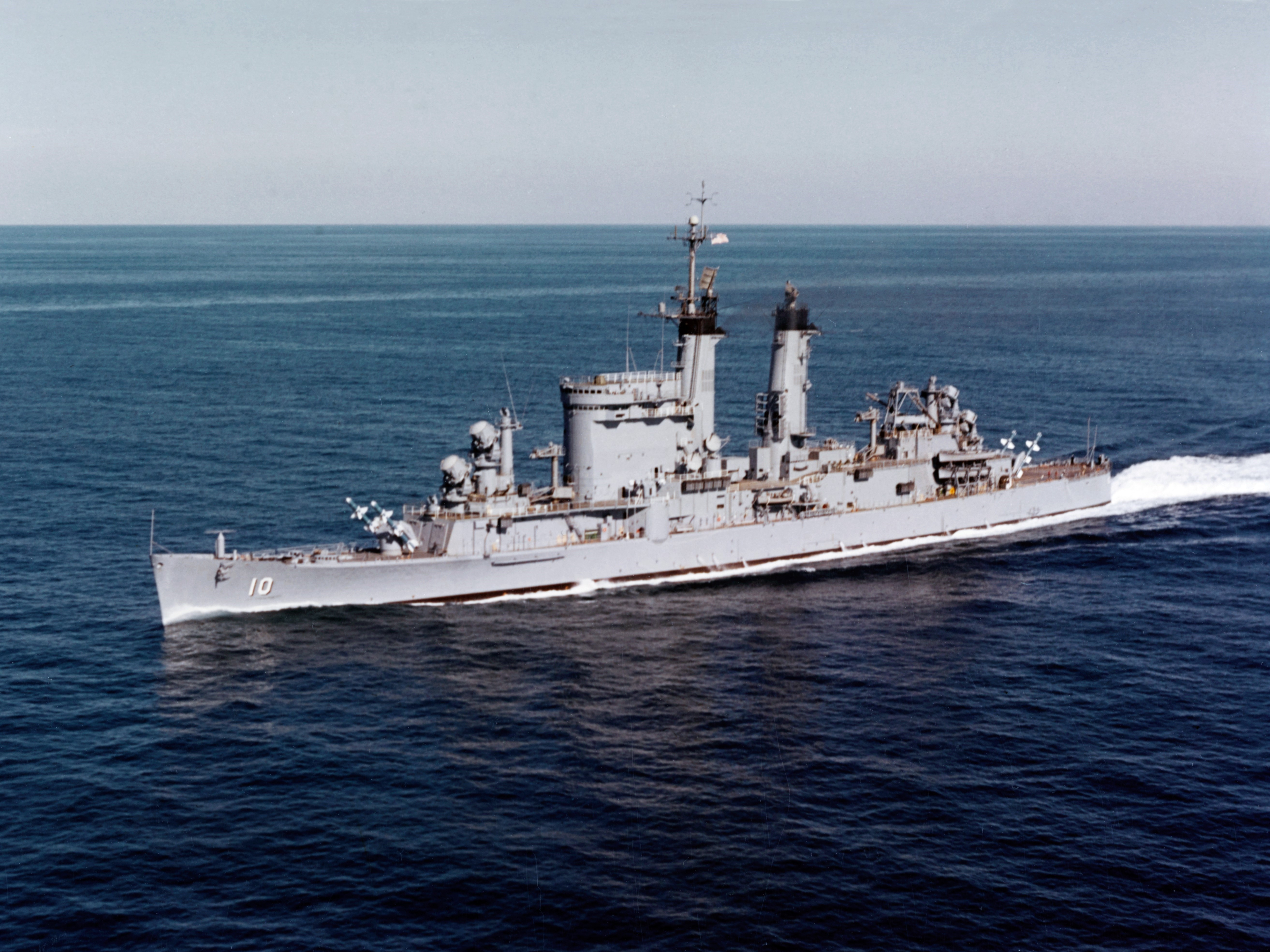 The U.S. Navy guided missile cruiser USS Albany (CG-10) conducting sea trials on 18 October 1962. Note that the SPS-30 radars fore and aft are still missing.